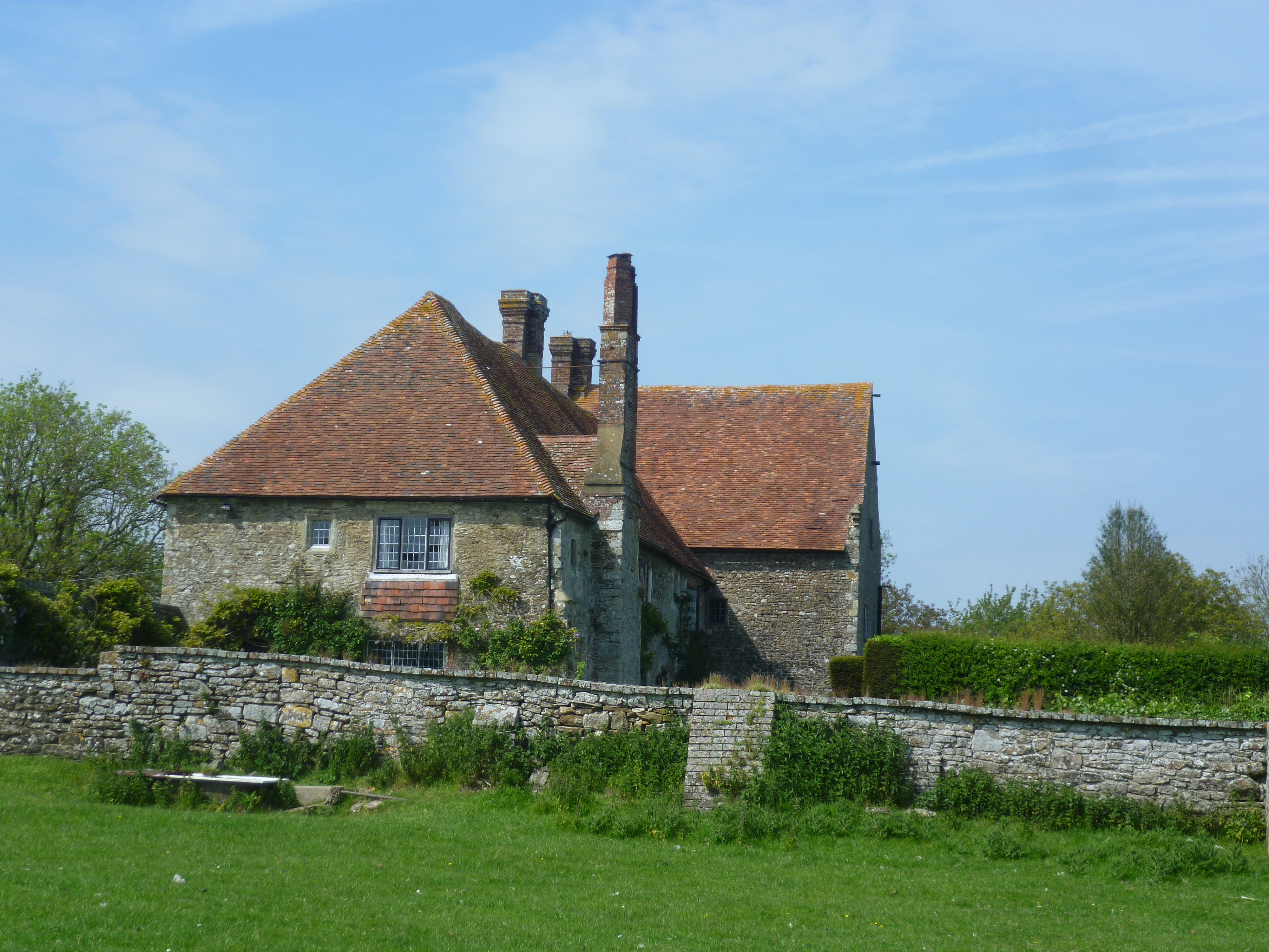 Wickham Manor seen from the 1066 Country Walk